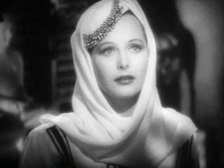 Cropped screenshot of Hedy Lamarr from the trailer for the film Lady of the Tropics (1939).